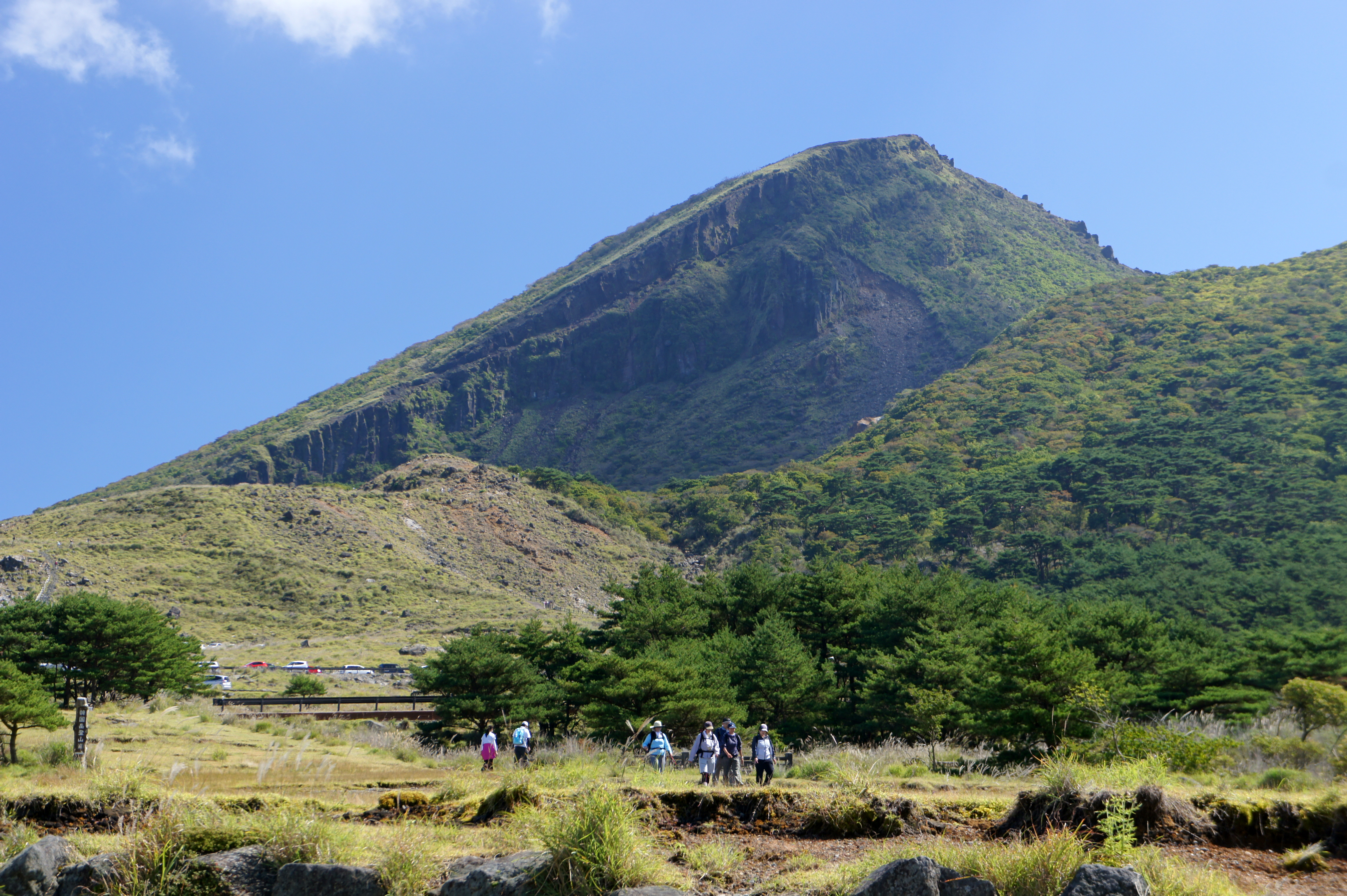 Ebin Plateau in Ebino, Miyazaki prefecture, Japan.